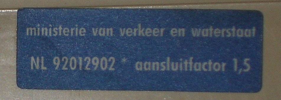 Sticker on Dutch telephone equipment showing ringer equivalence number of 1.5.